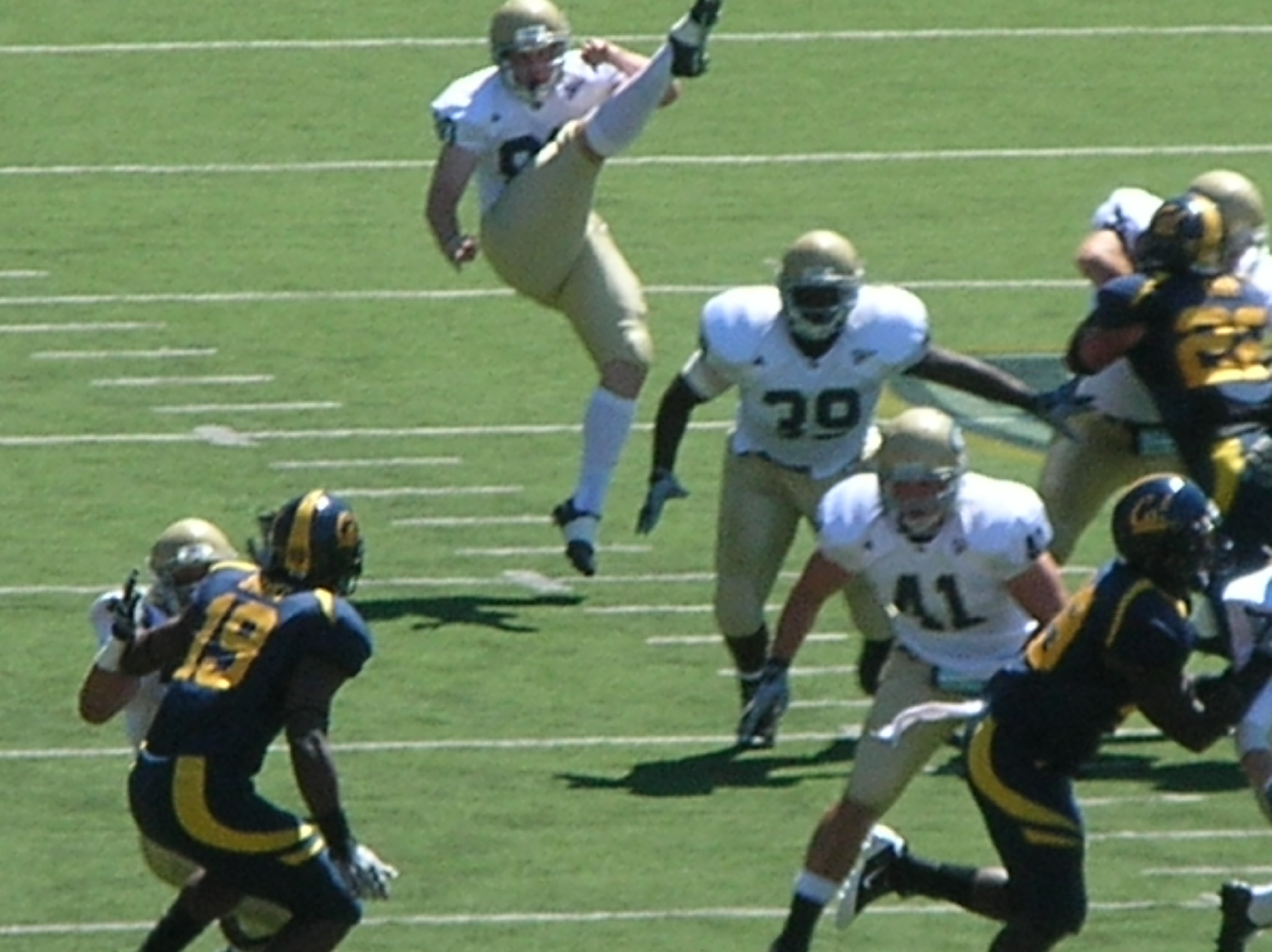 The UC Davis Aggies punt the ball during a road game against the California Golden Bears. The Golden Bears won 52-3.